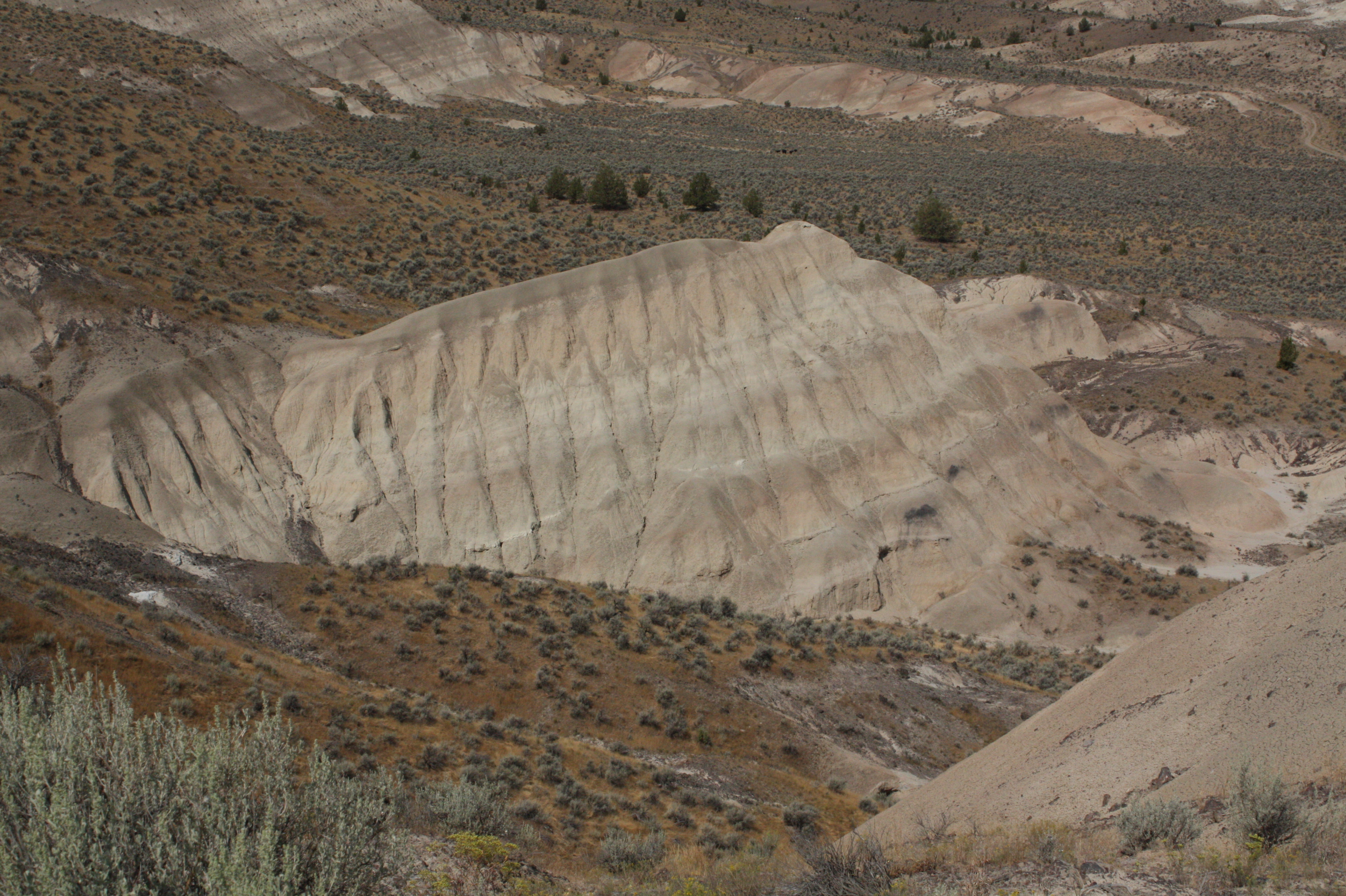 Outcrop of the Mascall Formation at the Mascall Overlook near Picture Gorge in central Oregon.